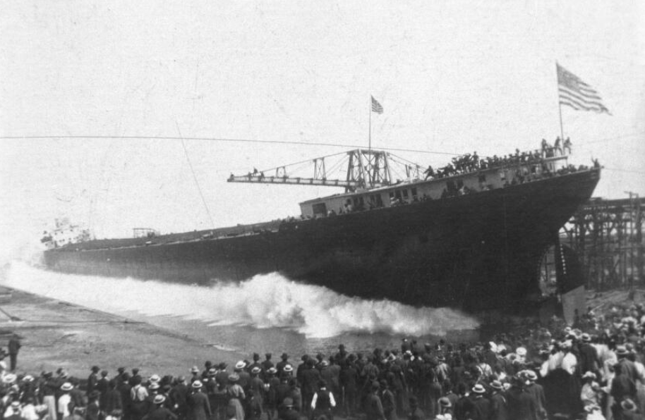 The launch of the steamer Edward Y. Townsend